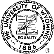 Official Seal of the University of Wyoming